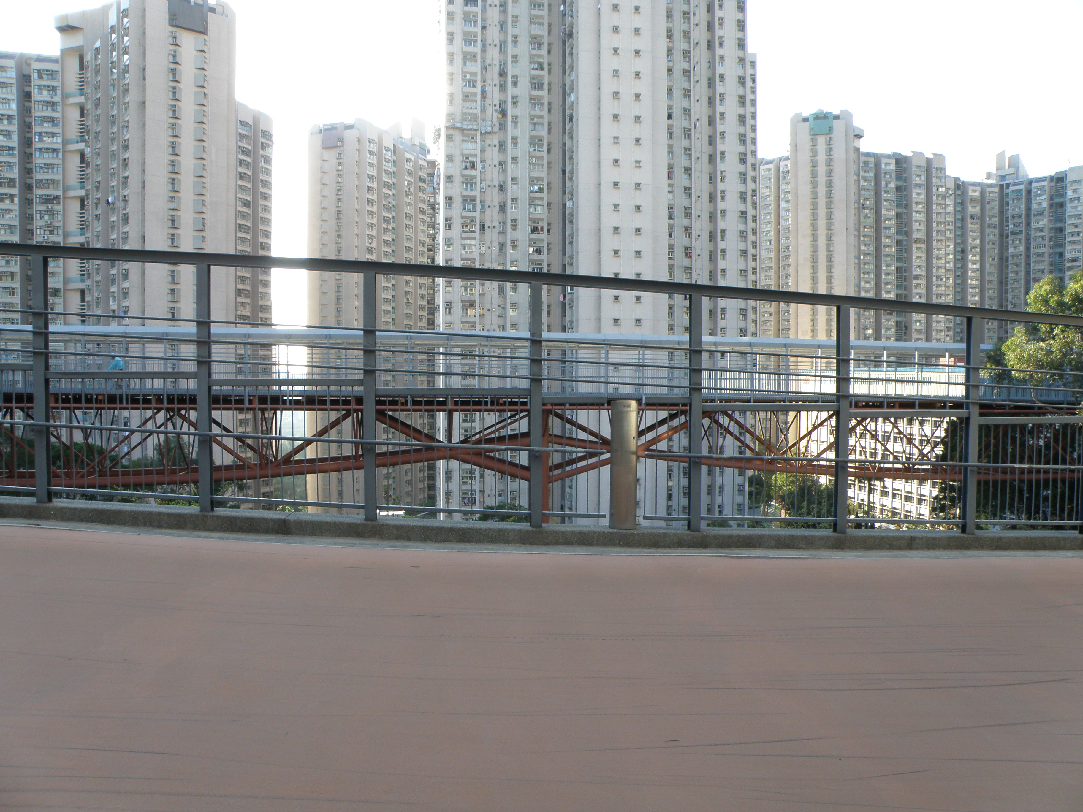 Po Kong Village Road Park in Diamond Hill, Hong Kong.